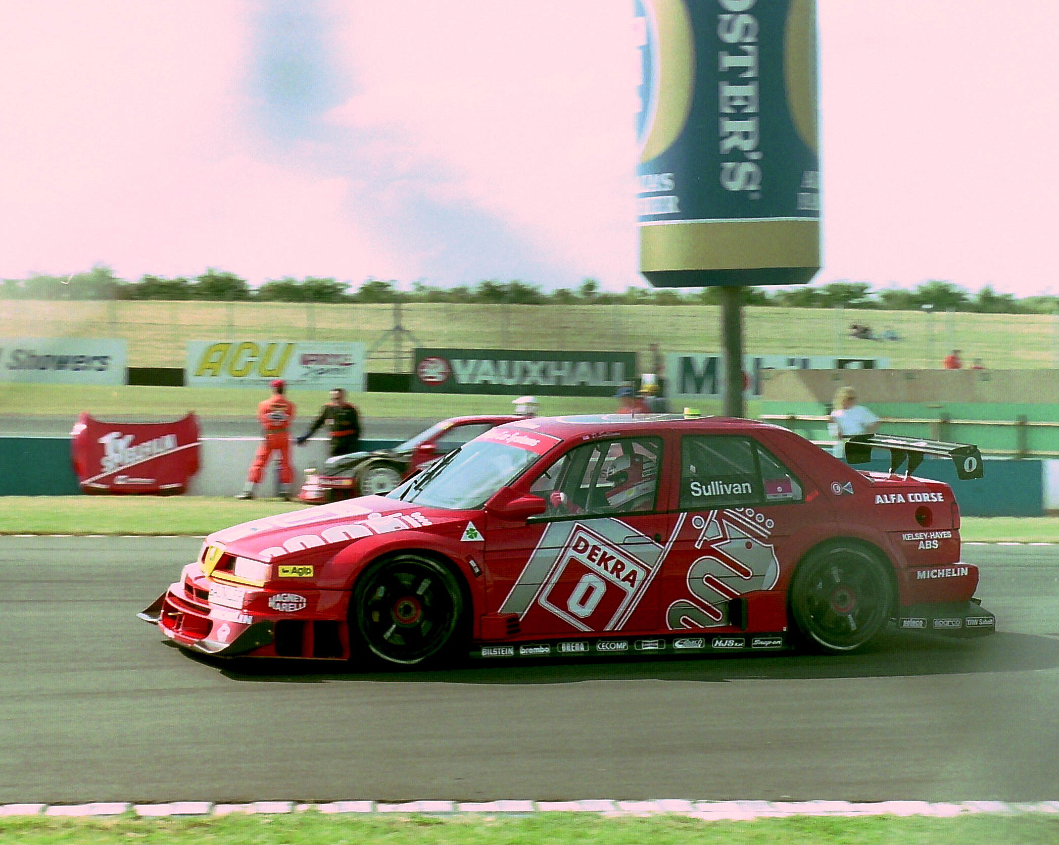 Danny Sullivan - Alfa Corse - Alfa Romeo 155 V6 TI 94 German Touring Car Championship - Donington Park July 17 1994